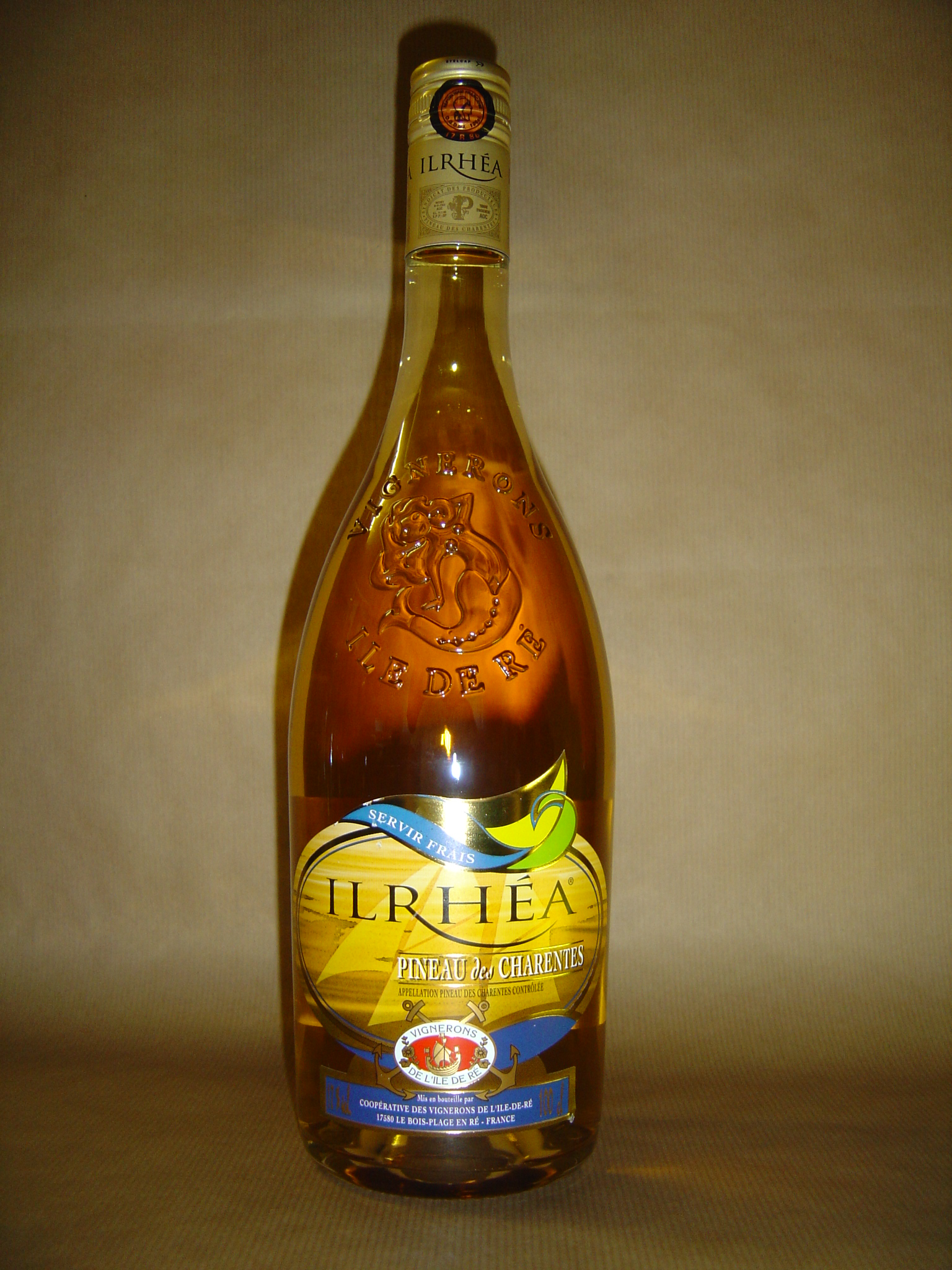 A bottle of Pineau des Charentes, a sweet Vin de liqueur from the Charentais, i.e., the same region as where Cognac is made. Foto von User:Ile-de-re, aufgenommen am 08.07.2006 im eigenen Keller